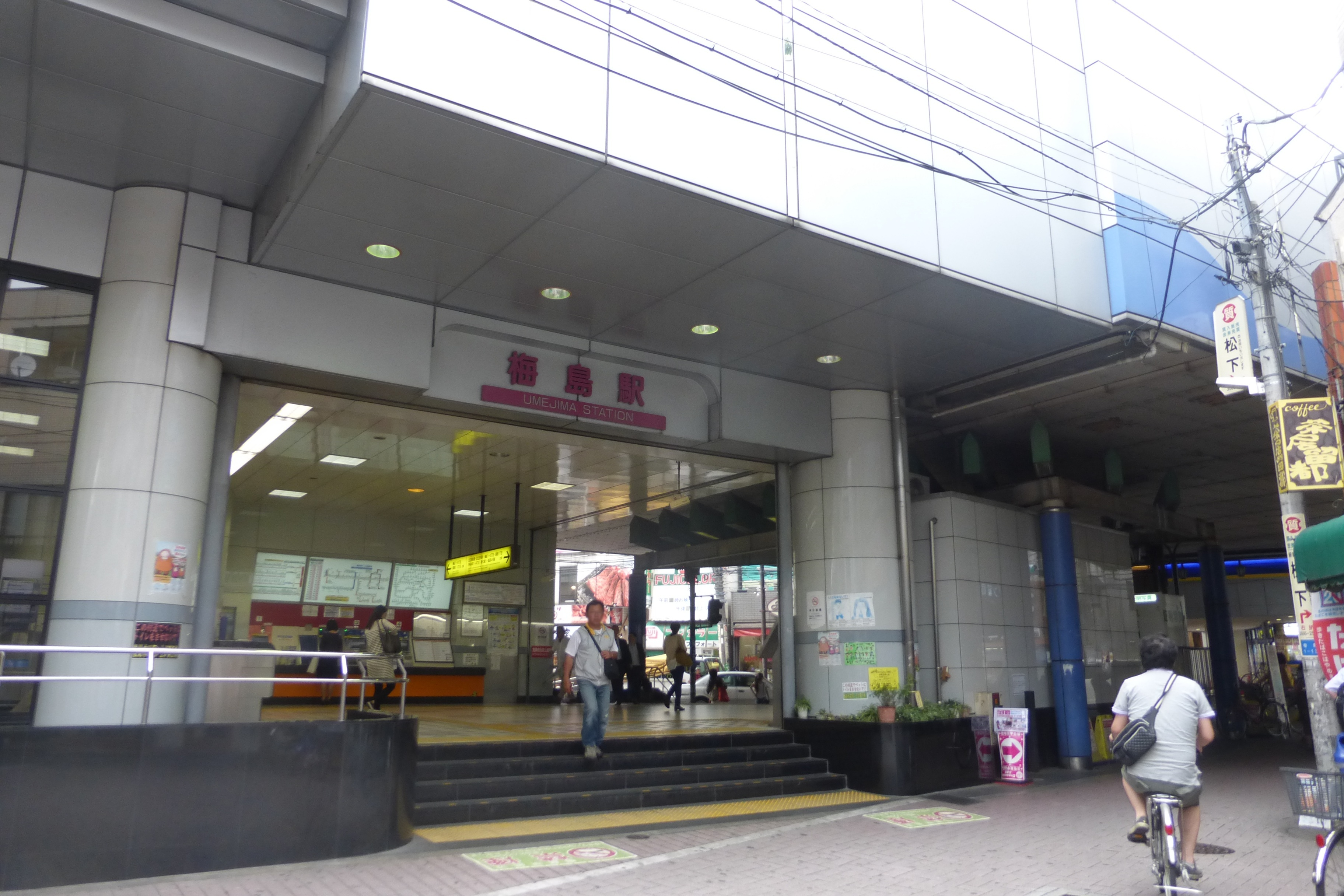 Umejima Station east exit (梅島駅の東口)